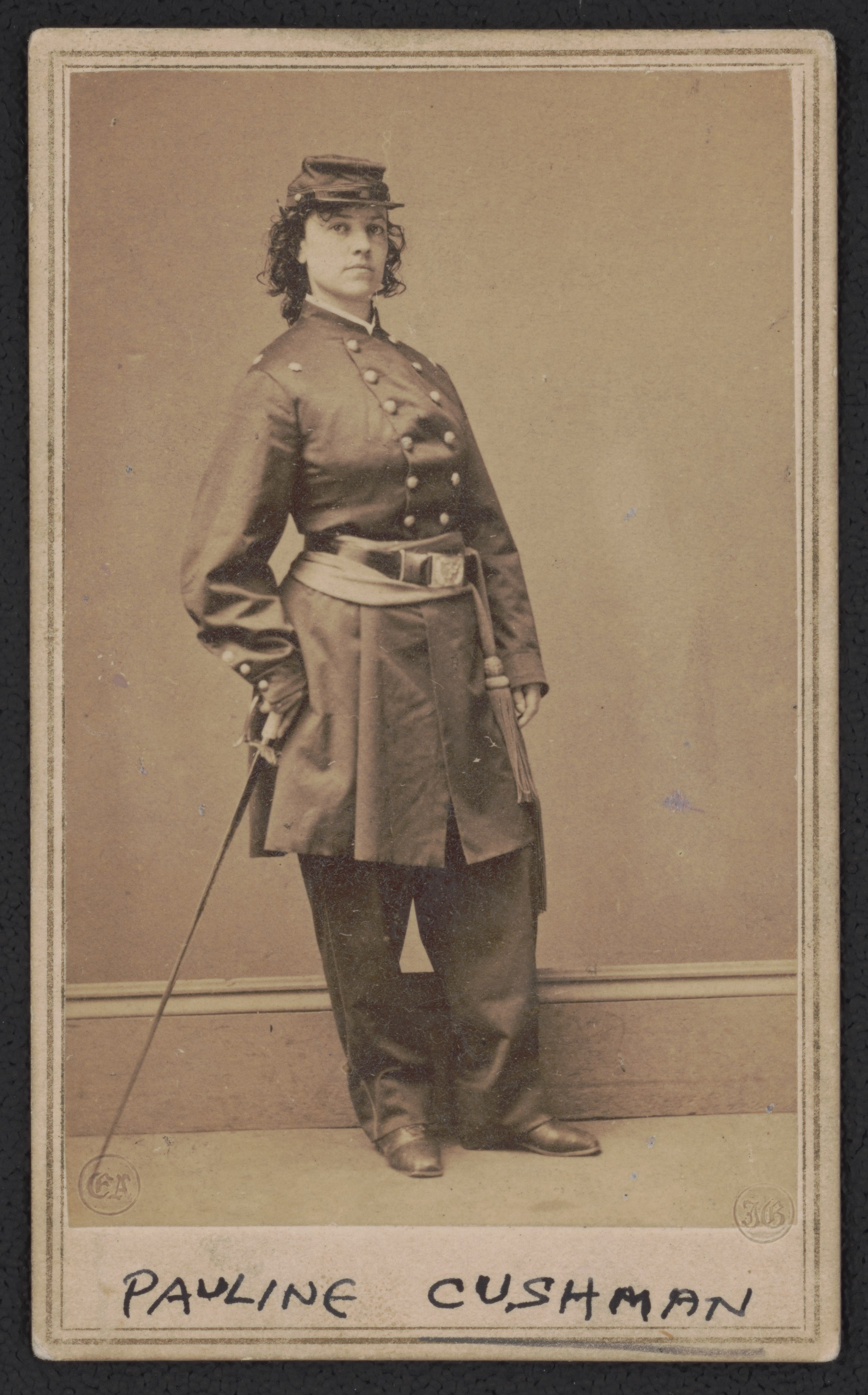 Title: Actress and Union spy Pauline Cushman in uniform with sword Abstract/medium: 1 photograph : albumen print on card mount ; mount 11 x 7 cm (carte de visite format)